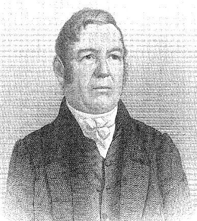 Ela Collins, New York Congressman